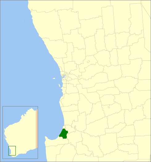 Description=Location of the Local Government Area in Western Australia